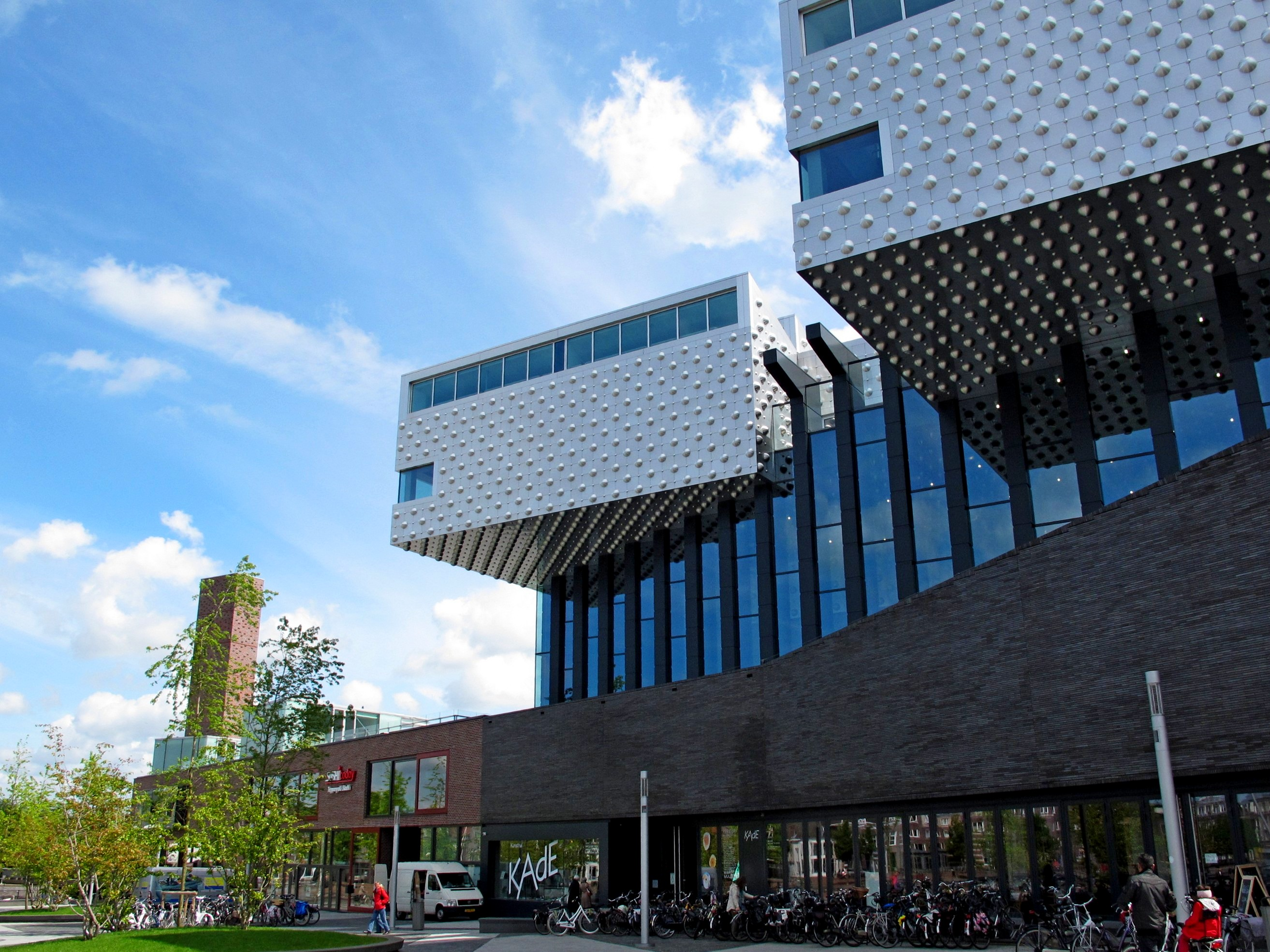 Eemhuis Amersfoort - exterior of the Eemhuis, seen from the Eemplein